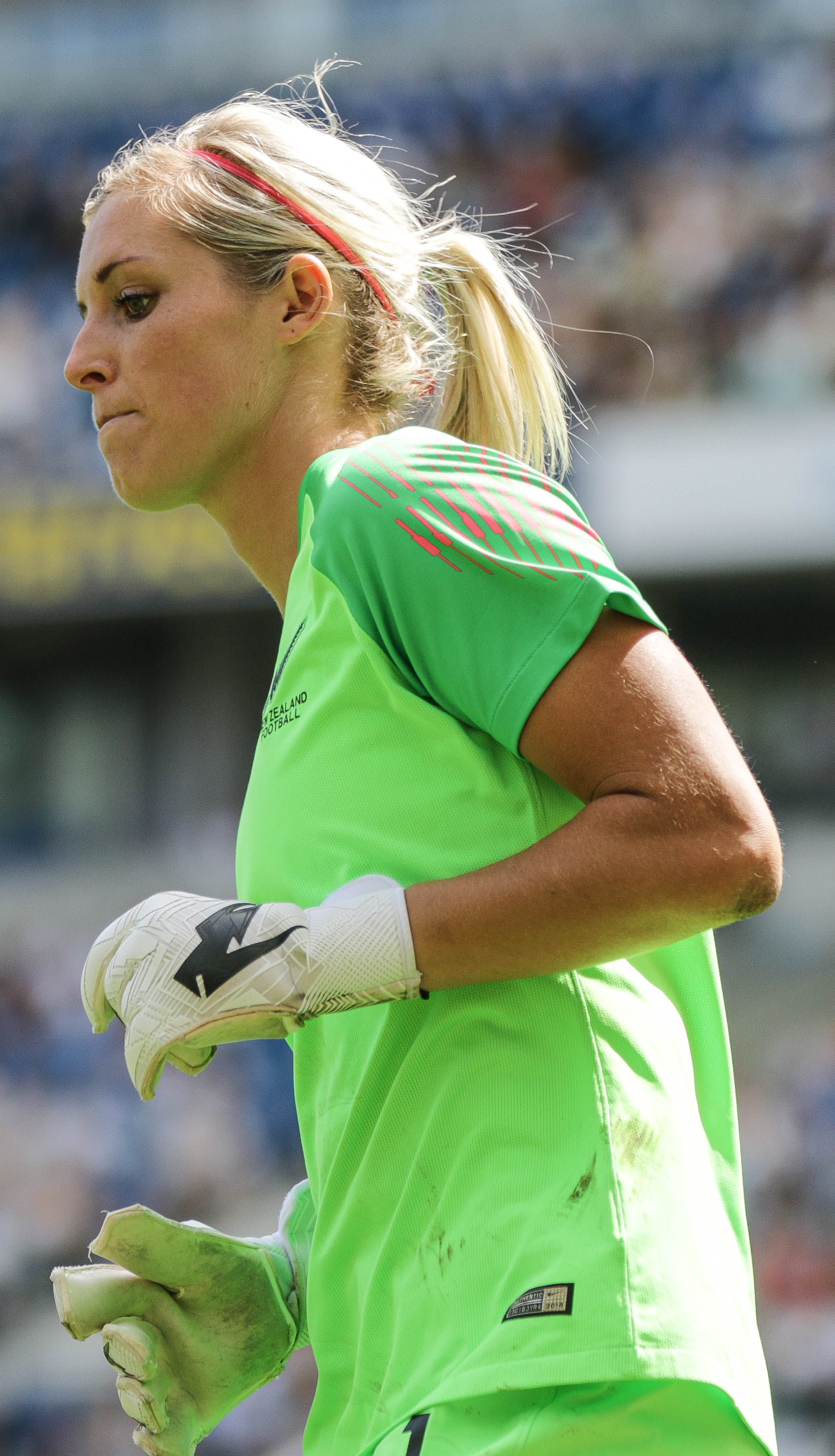 England Women 0 New Zealand Women 1 01 06 2019-950.jpg